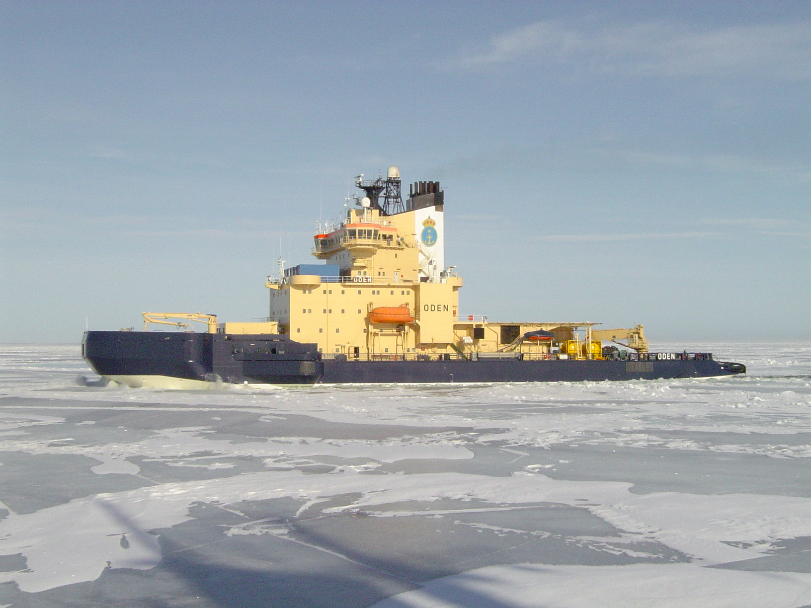 Oden in the ice in the Bay of Botnia